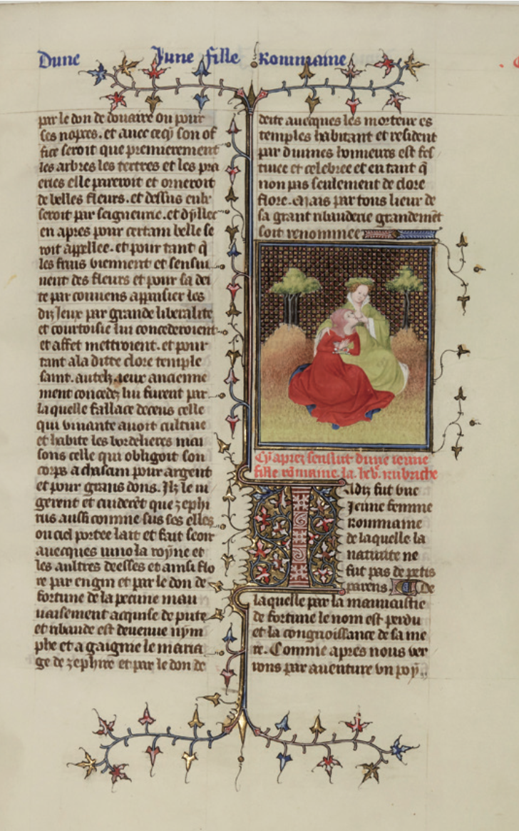 A page from an illuminated manuscript of the writer Giovanni Boccaccio where an unnamed Roman Girl Feeds her Mother in Prison.